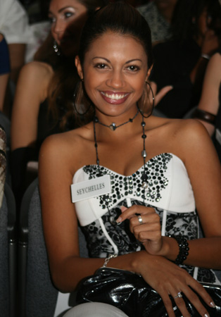 Miss Seychelles 2008 Elene Angine during Miss World 08